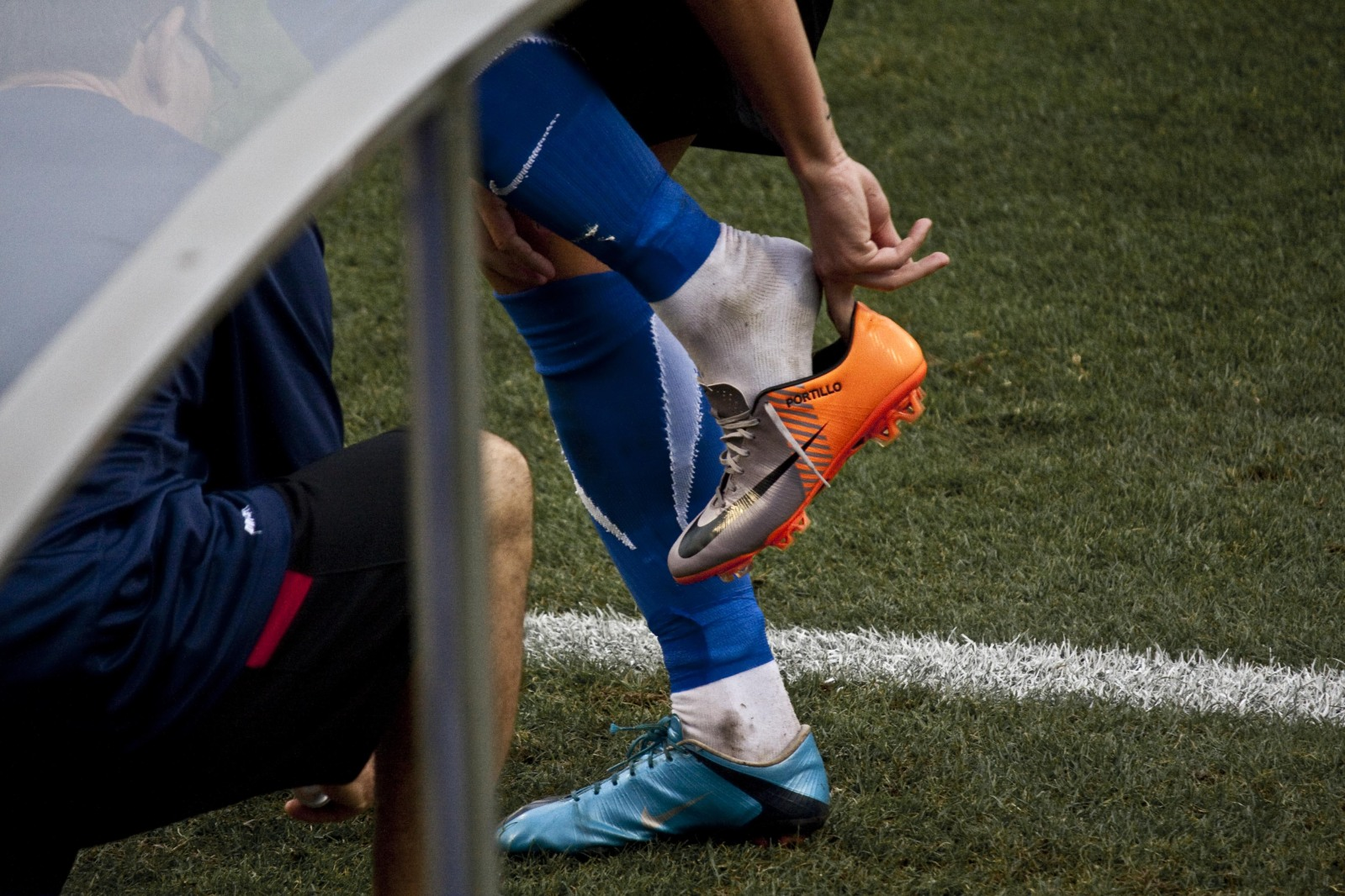 Javier Portillo putting on his boots during the match played Hércules-Athletic Bilbao in José Rico Perez Stadium in the season 2010/11.